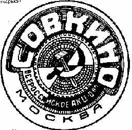 Logo de Sovkino